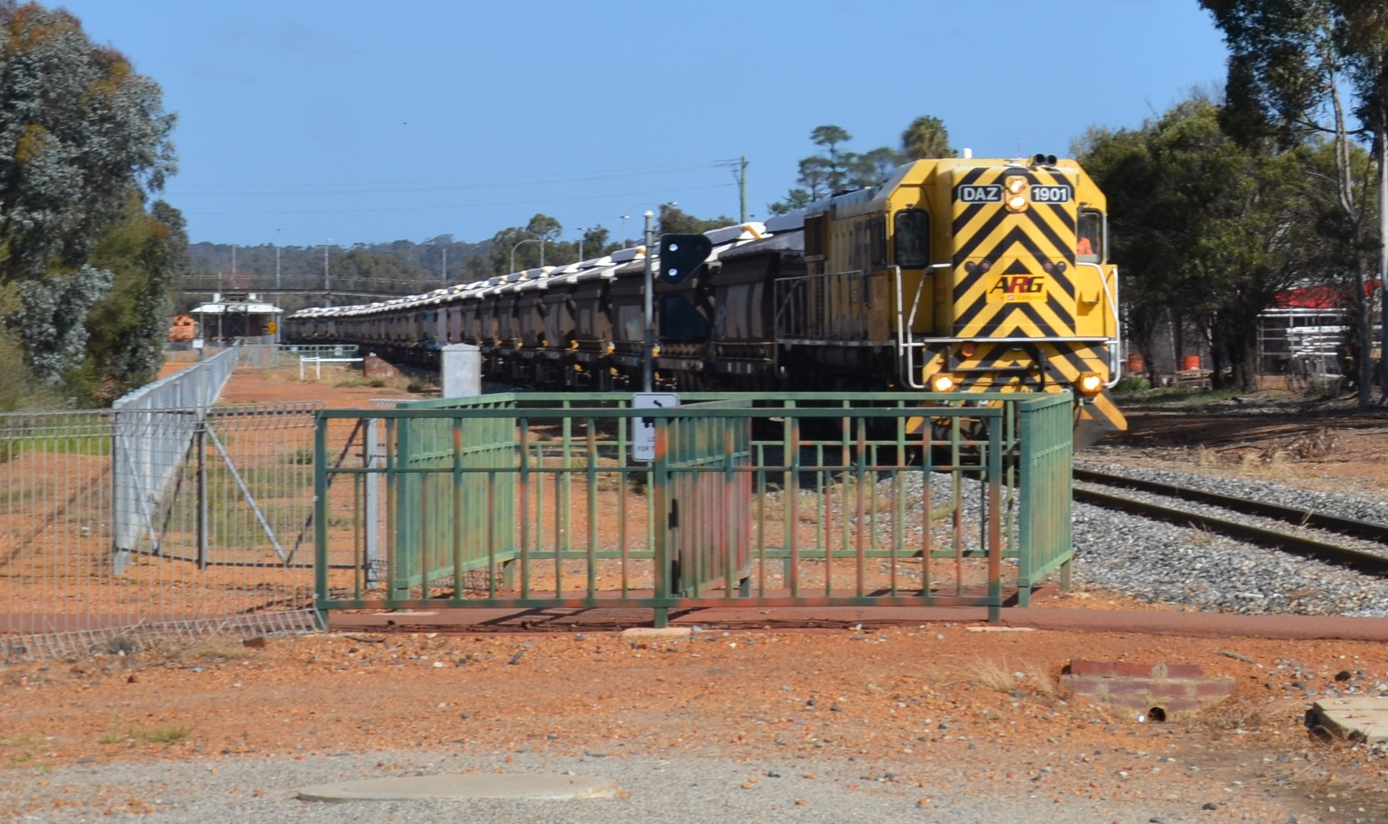 DAZ 1901 leaving the station limits area of the former Narrogin railway yard, 25 09 2013